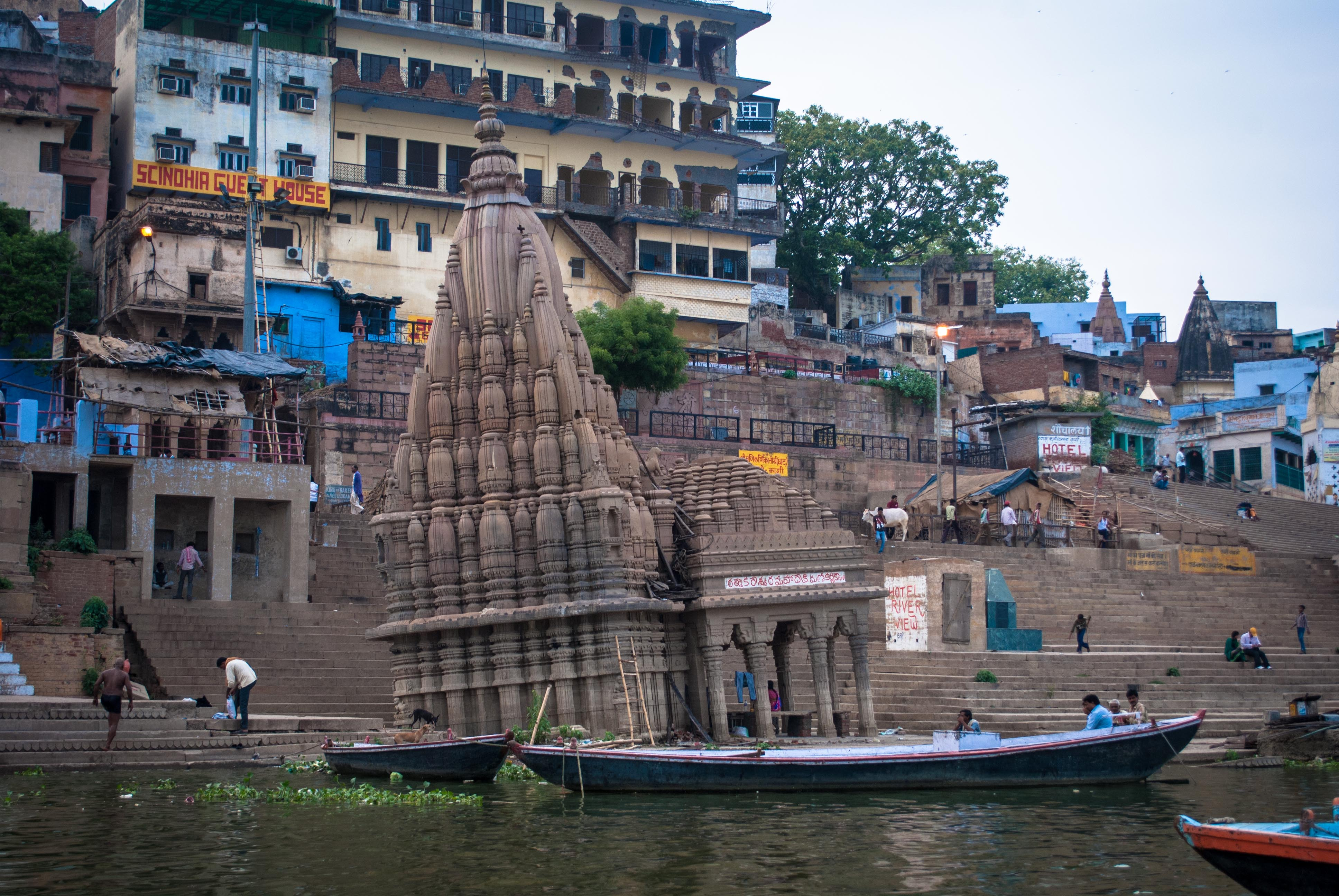 This image was taken in Varanasi,2013